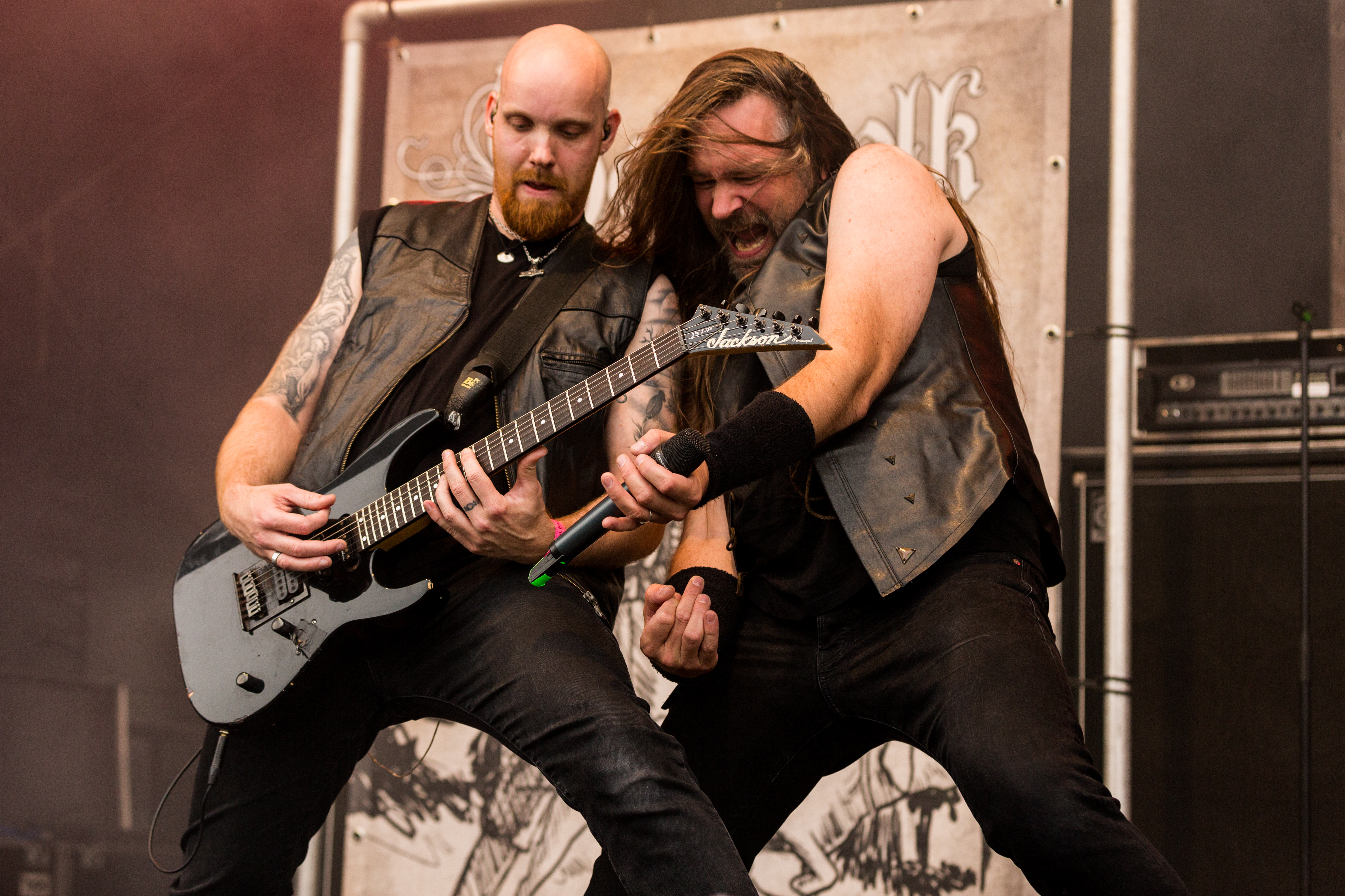 The Dutch folk an pagan metal band Heidevolk at the Metal Frenzy 2017 in Gardelegen/Germany.